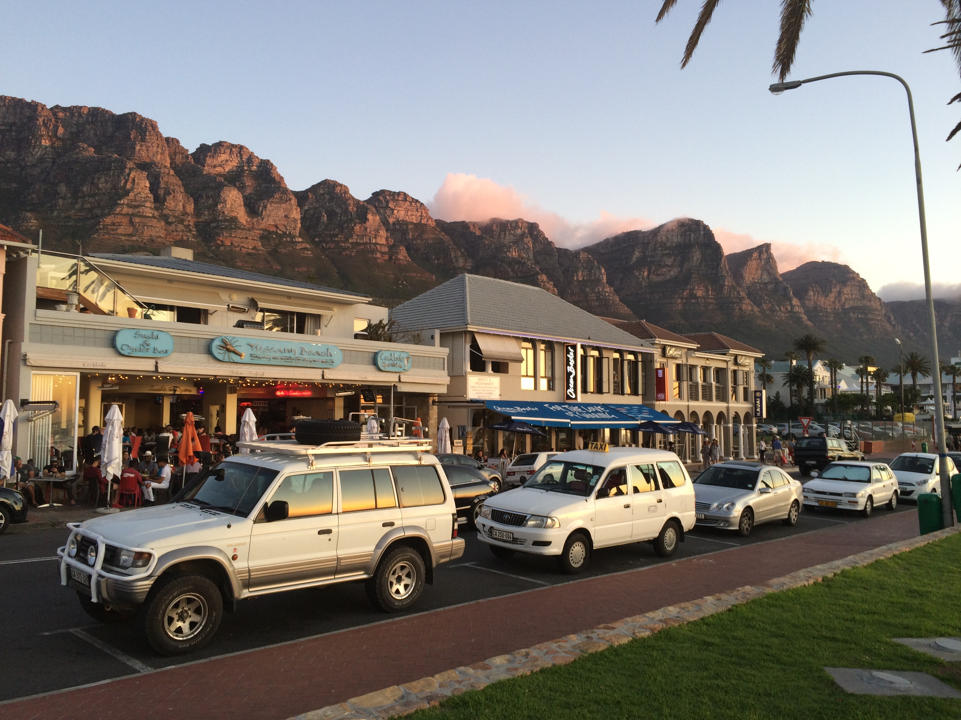 Camps Bay at the sunset, Western Cape, South Africa.